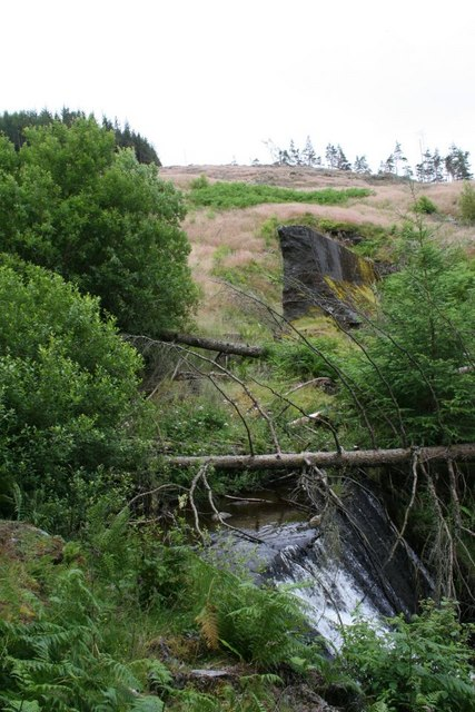 Nant y Gro Dam View of the dam across part of the old spillway. This part is covered in large lumps of debris. I would have thought there would have been more but it must have been swept away in the explosion so could be further downstream or in the lake.